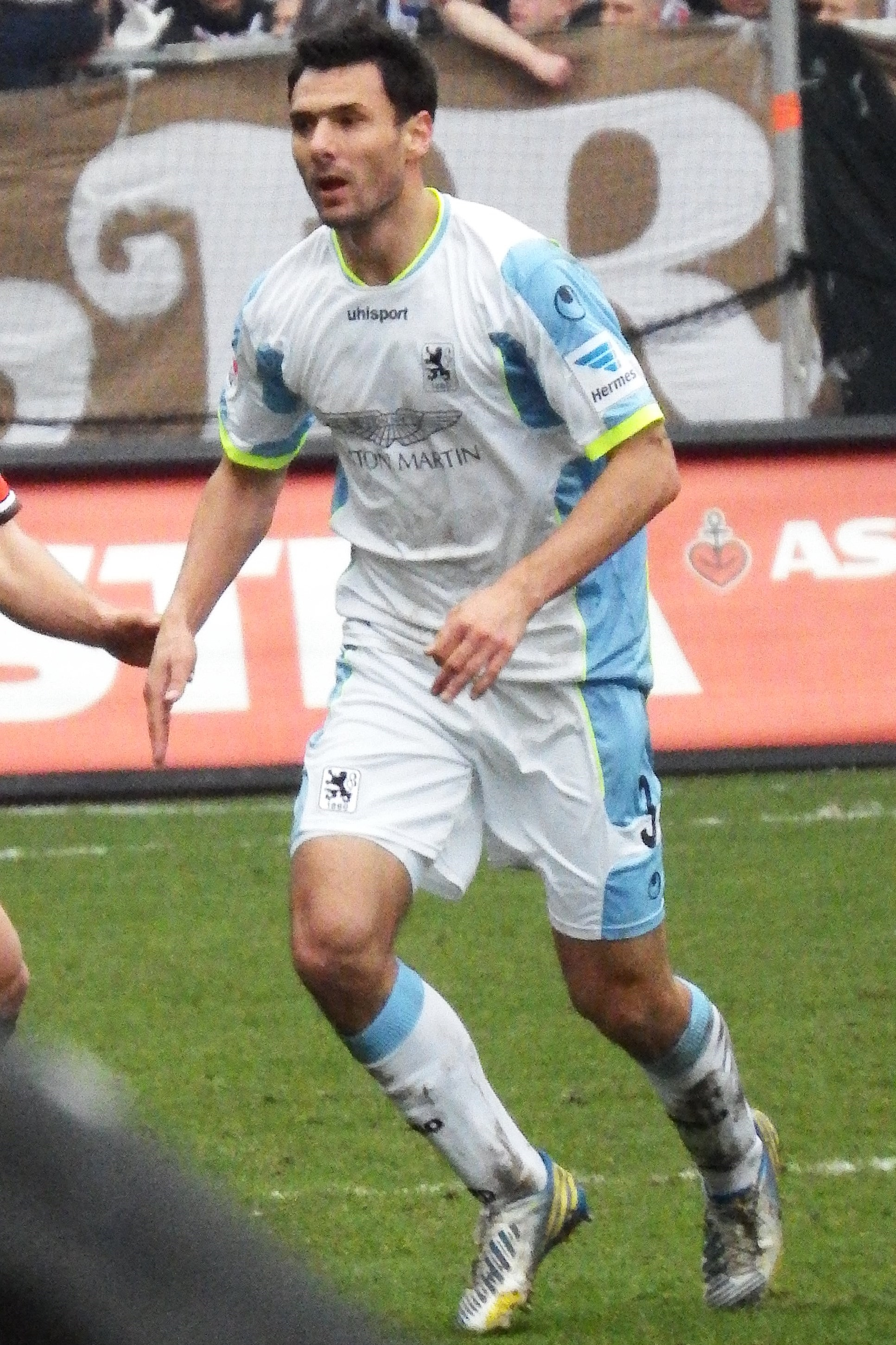 Grzegorz Wojtkowiak as Player of TSV 1860 München